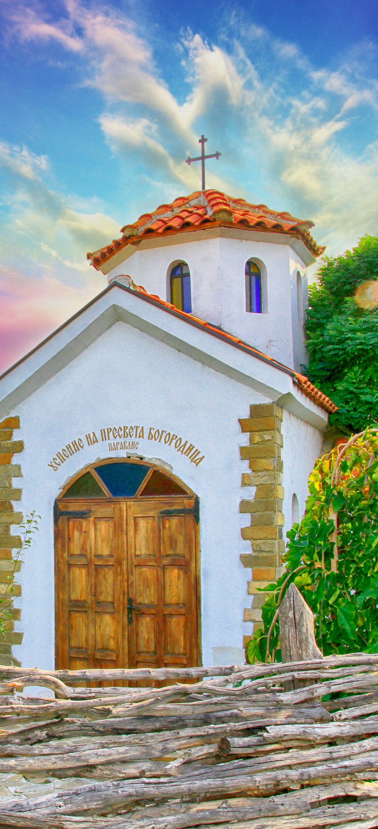 Chapel "Assumption of the Virgin Mary"